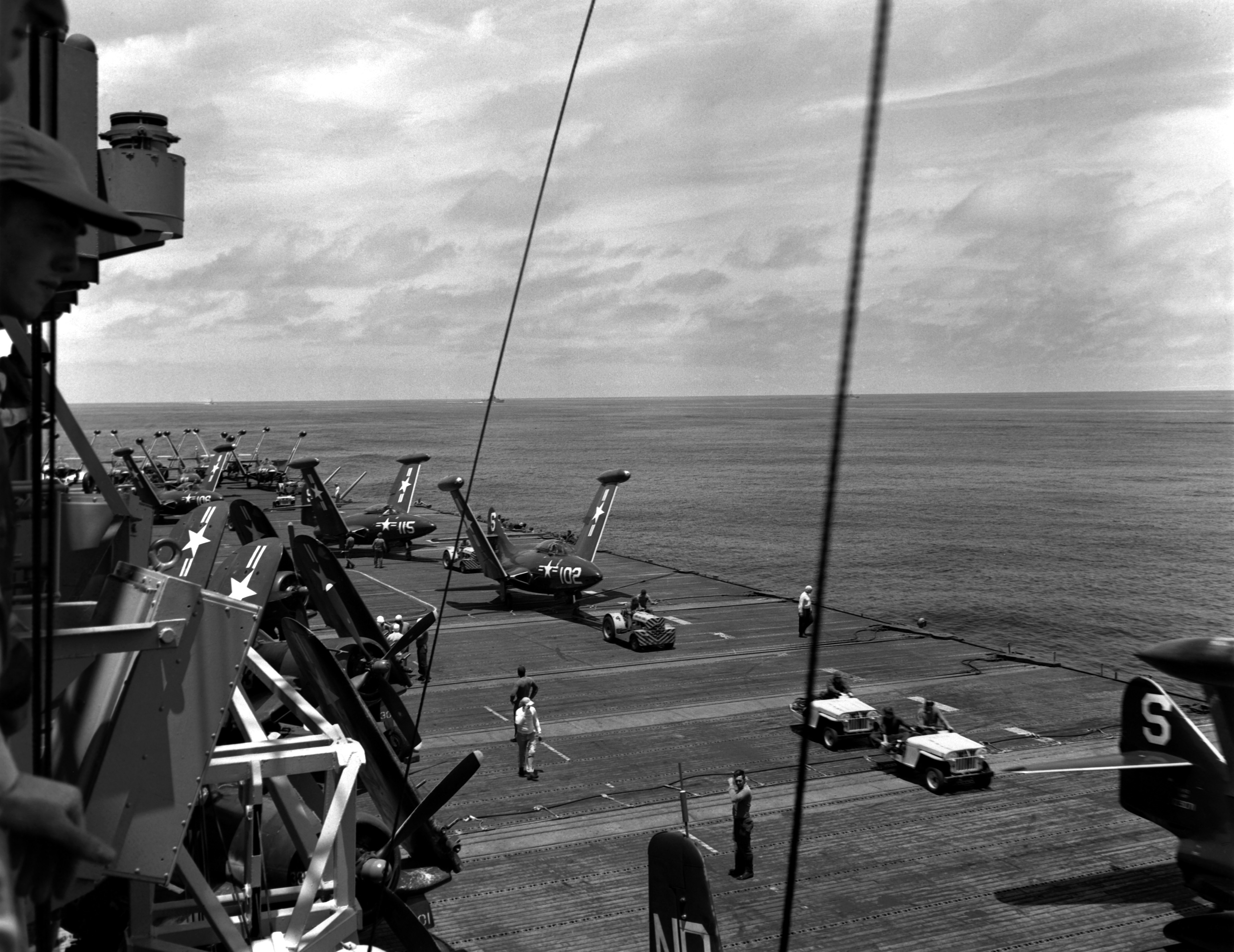 View of the flight deck of the U.S. aircraft carrier USS Valley Forge (CV-45) in Korean waters in 1950. Two other carriers of Task Force 77 can be seen in the background. On deck are planes of Carrier Air Group 5 (CVG-5): Grumman F9F-2 Panthers of fighter squadrons VF-51 Screaming Eagles (tail code S-1XX, foreground), VF-52 Knight Riders (S-2XX, background), and Vought F4U-4B Corsairs of VF-53 Blue Knights (S-3XX, left foreground). The Happy Valley was deployed to the Western Pacific and Korea from 1 May to 1 December 1950.